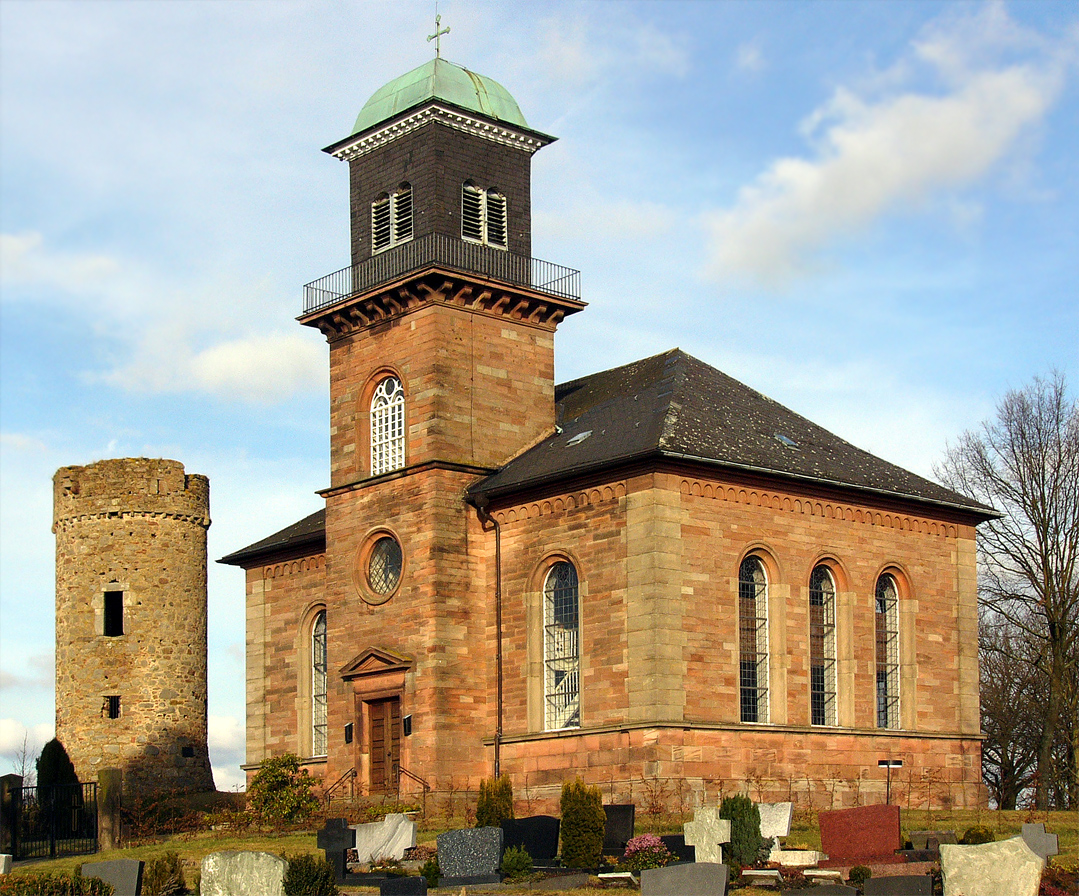 Church and look-out of Wittelsberg, a village in the district of Marburg